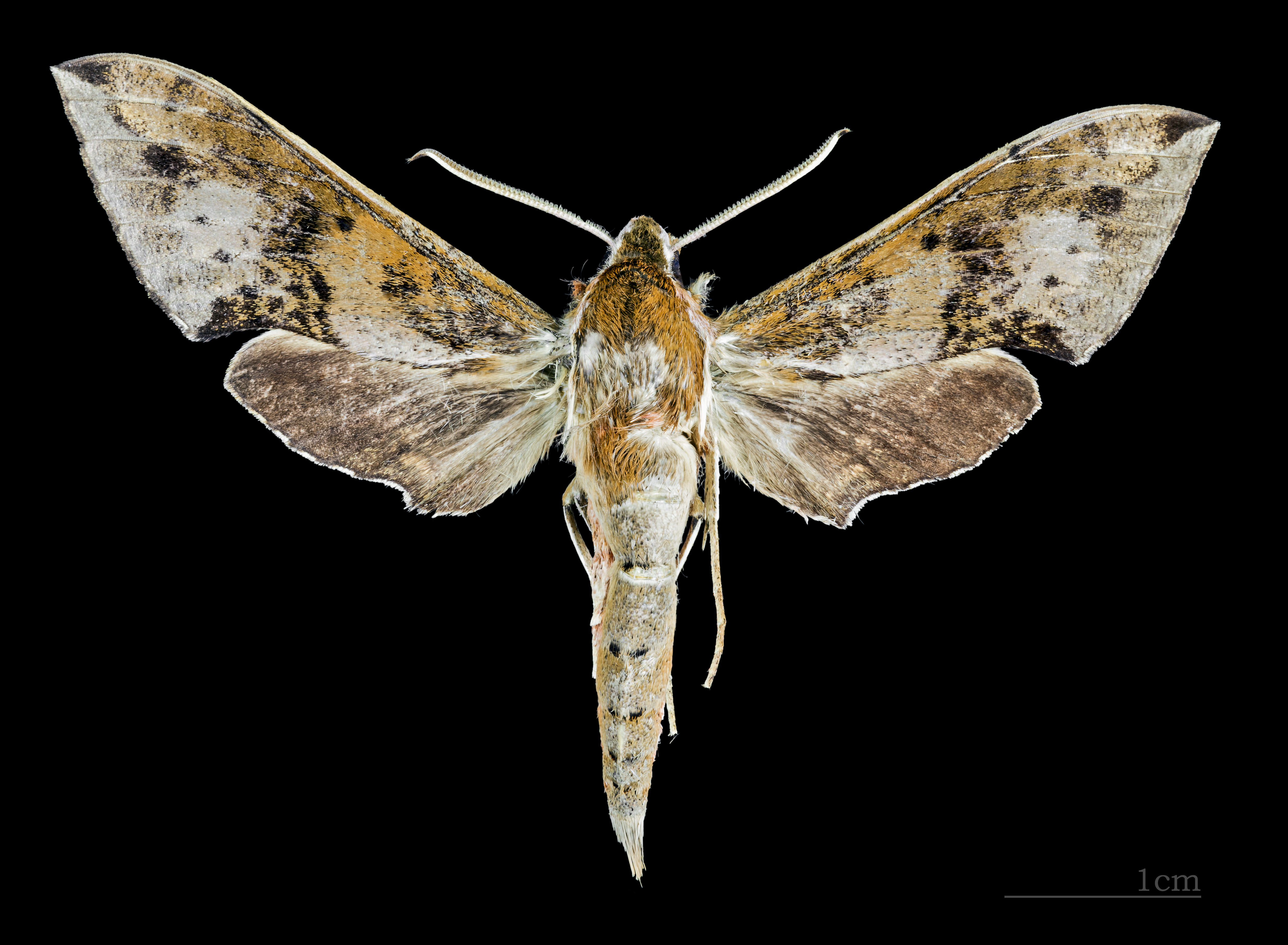 Rhagastis binoculata - Dorsal side Collection of the Mathematician Laurent Schwartz